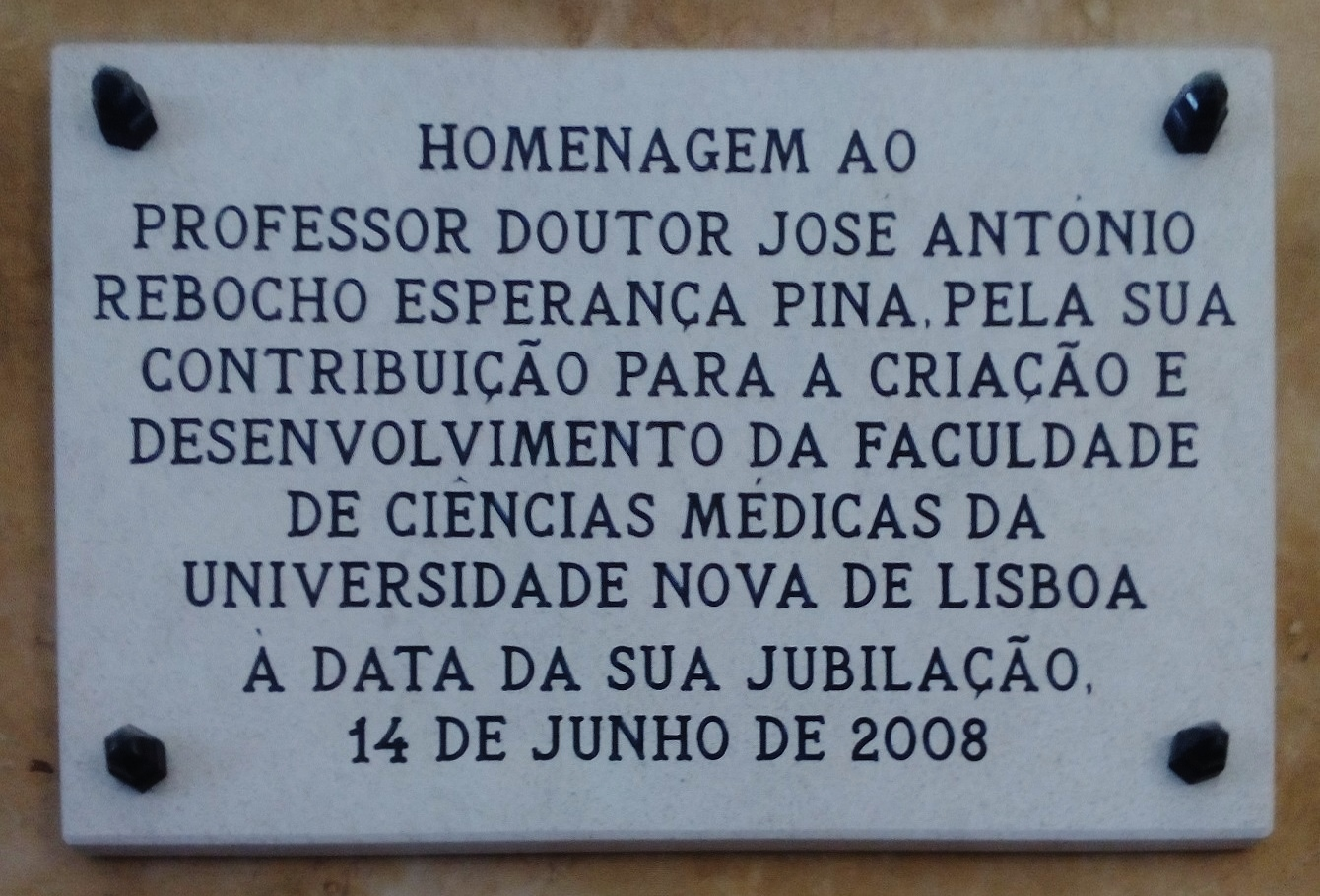 Homage to Professor J. A. Esperança Pina, for his role in the creation of NOVA Medical School, in the school's foyer in Lisbon, Portugal.